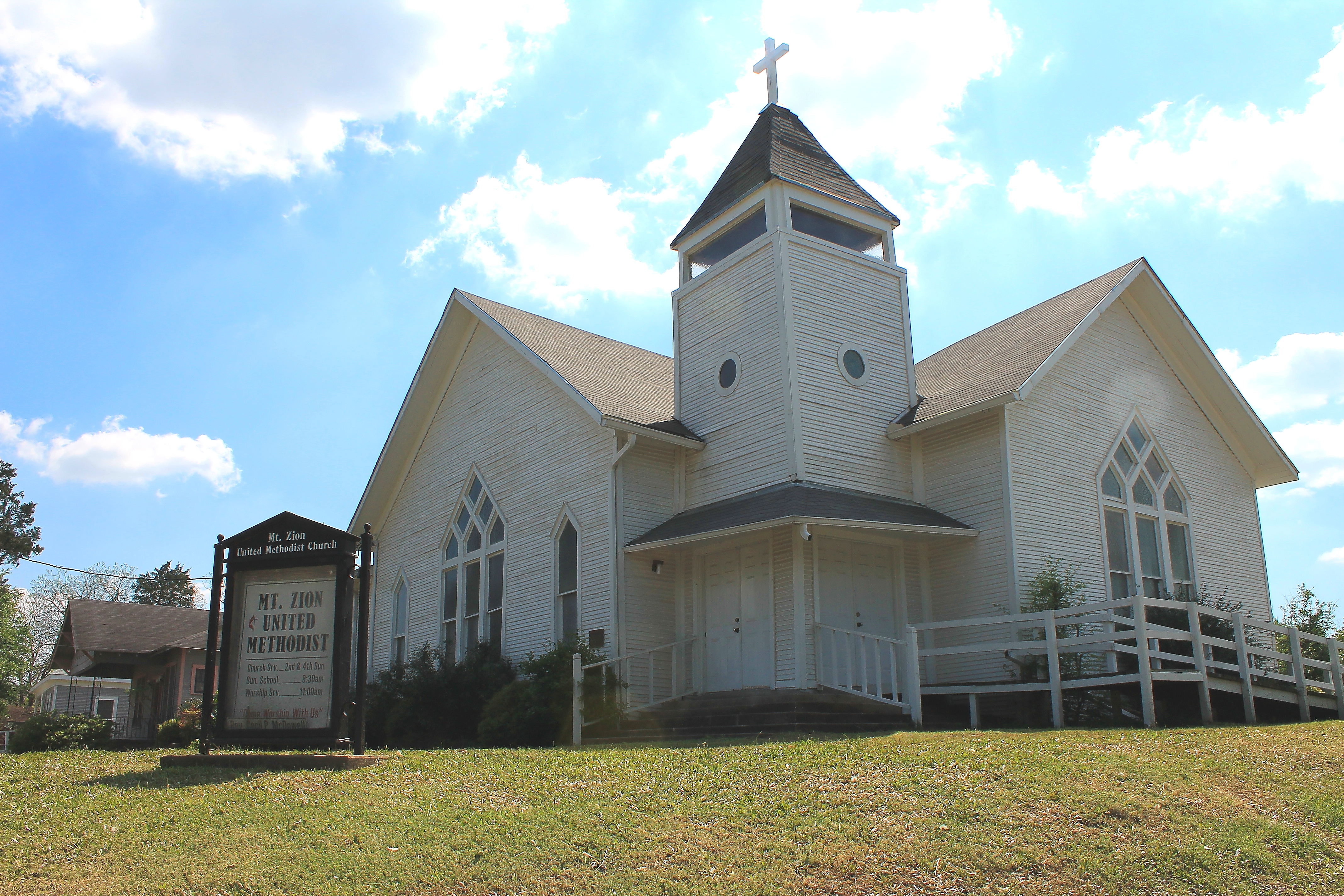 Mt.Zion United Methodist Church